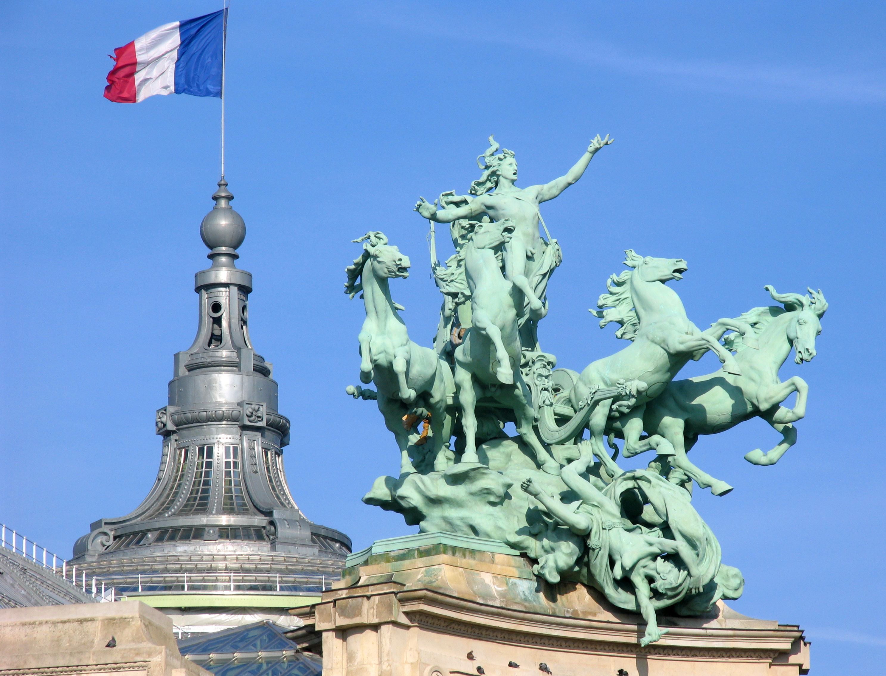 Harmony Triumphing over Discord, quadriga by Georges Récipon, Grand Palais, Paris